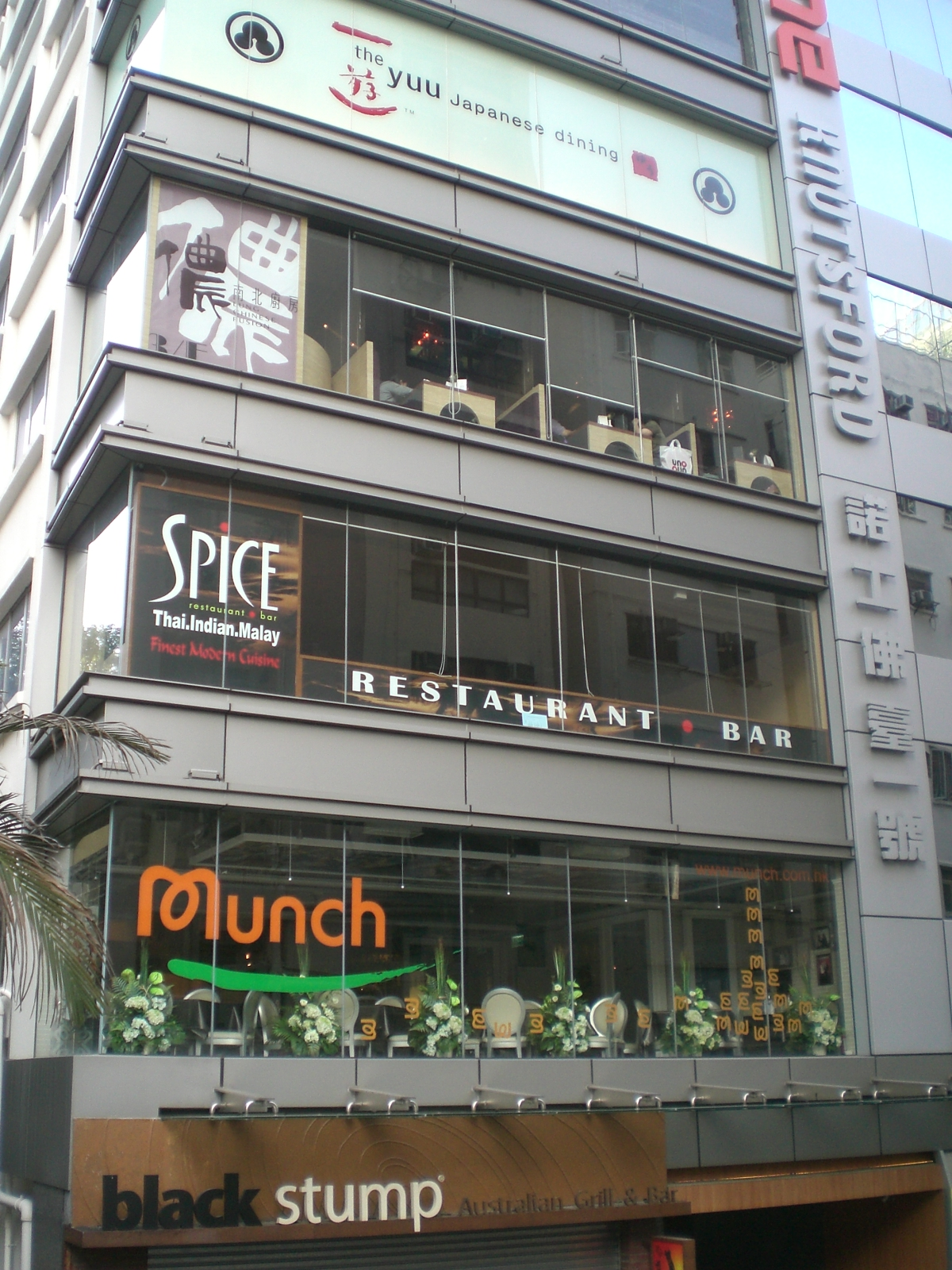 諾士佛台,Knutsford Terrace, TST, Hong Kong